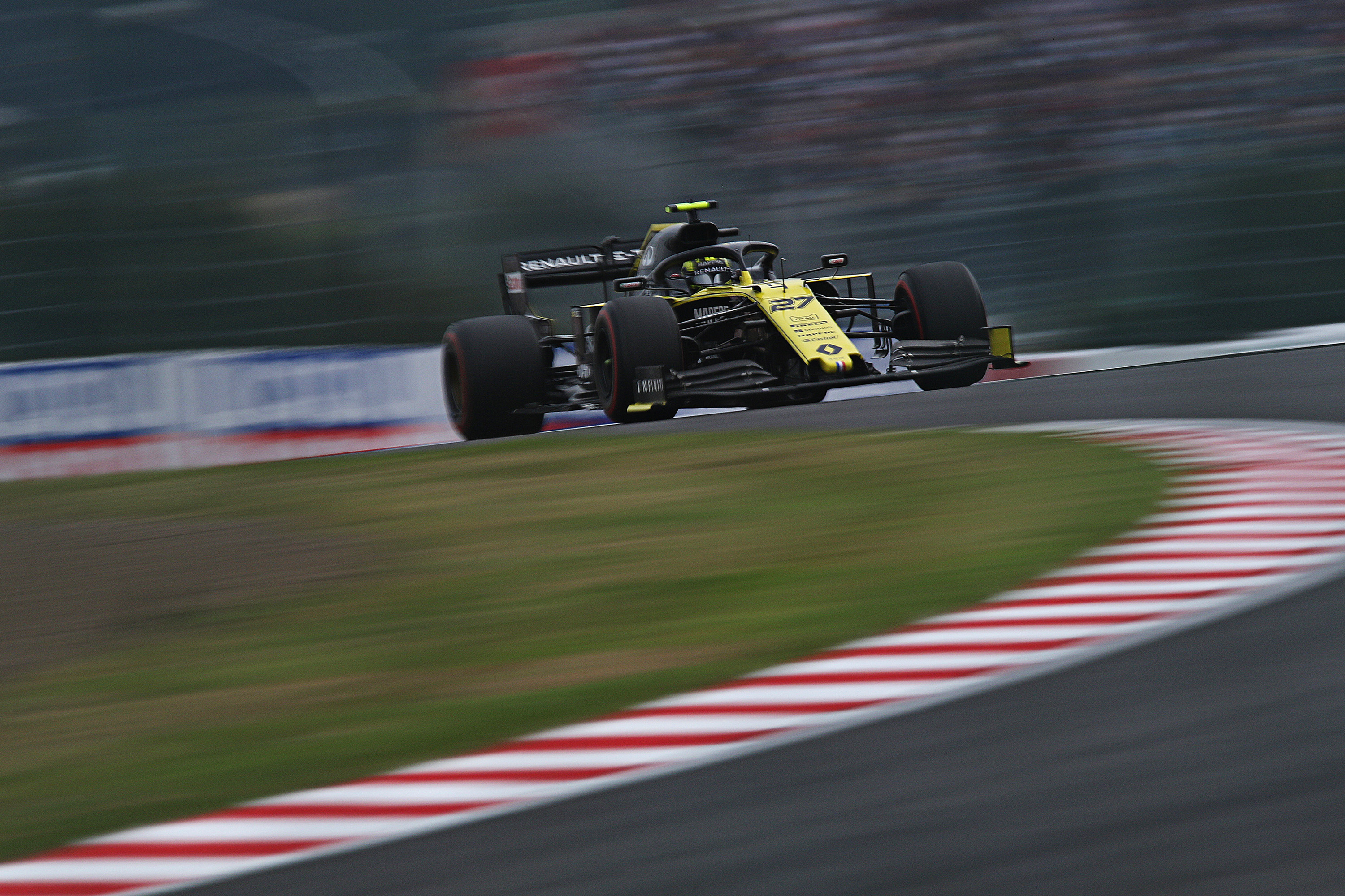 2019.10.11 F1 Rd.17 JapaneseGP FP1 Suzuka Circuit Renault F1 Team 27 Nico Hulkenberg [7D2_5178ks]